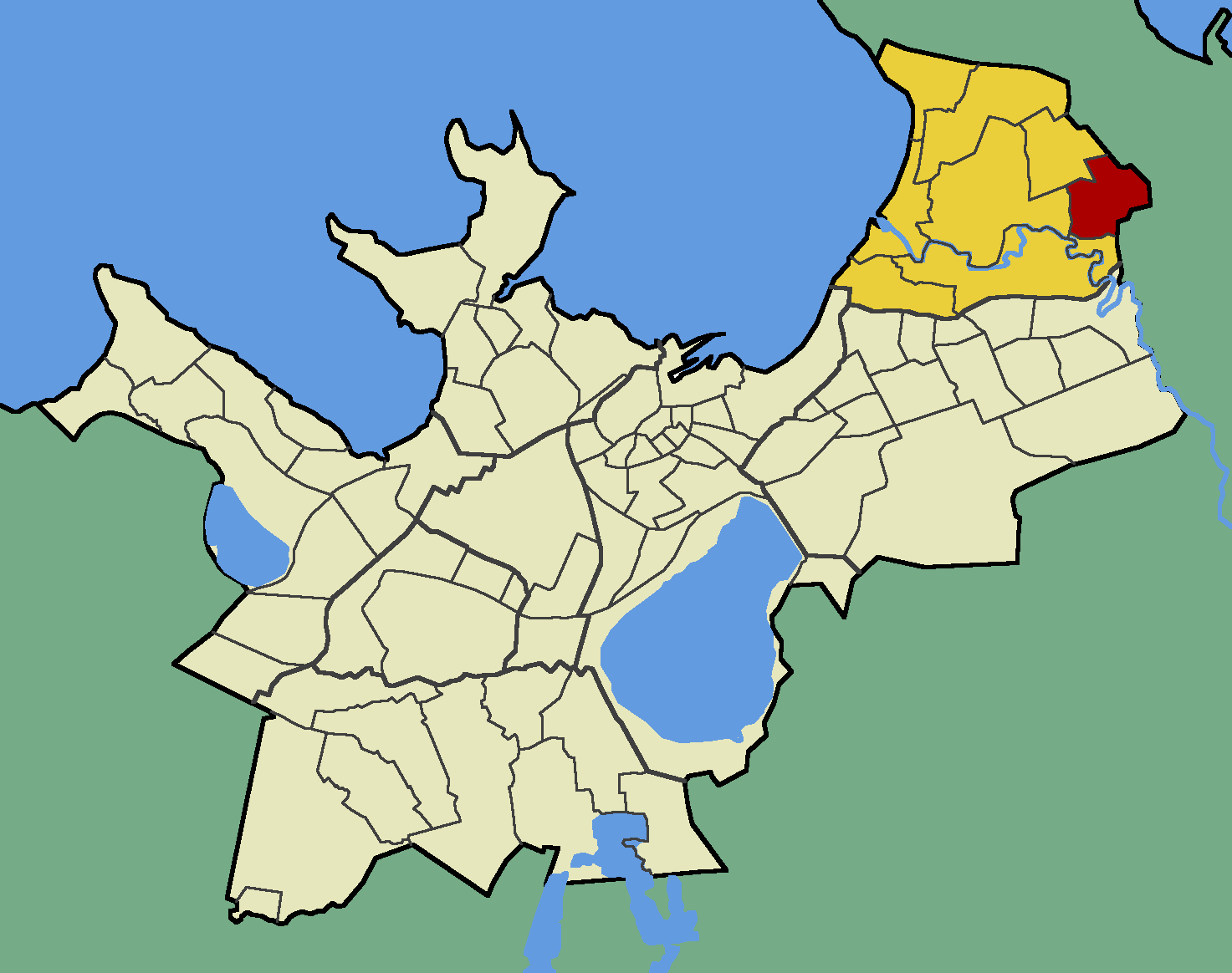 Map of Tallinn (Estonia) with borders of the quarters, Pirita district and Laiaküla quarter emphasised